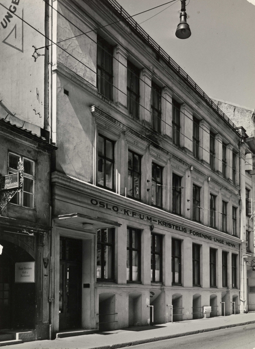 Møllergata 1, Oslo, Norway. Former restaurant, theater, occasionally meeting place for city parliament. Built 1847, demolished 1965.